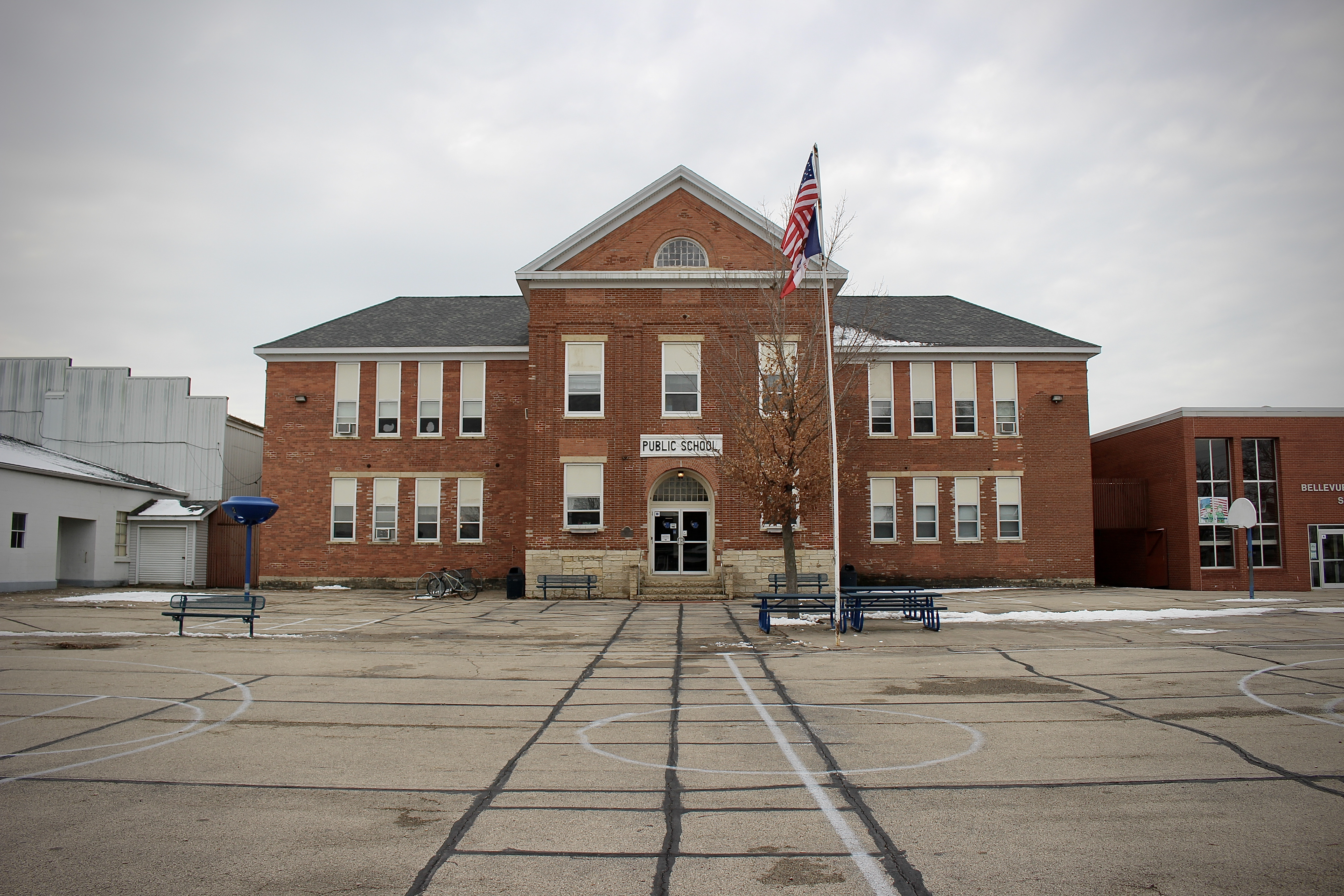 Currently serving as Bellevue Elementary, the former Jackson County Iowa Courthouse still operates as a school 175 years after its construction in 1845.